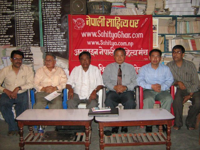 First prize of first online world webcam poem competition 2007 was distributed in Banni Prakashan Biratnagar